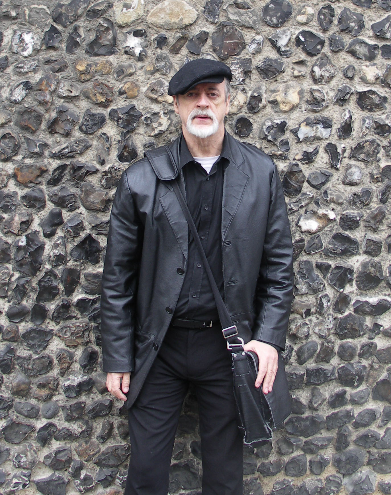 Portrait of Bill Lewis 2013 Other information I took this of my husband Bill Lewis in Canterbury Kent